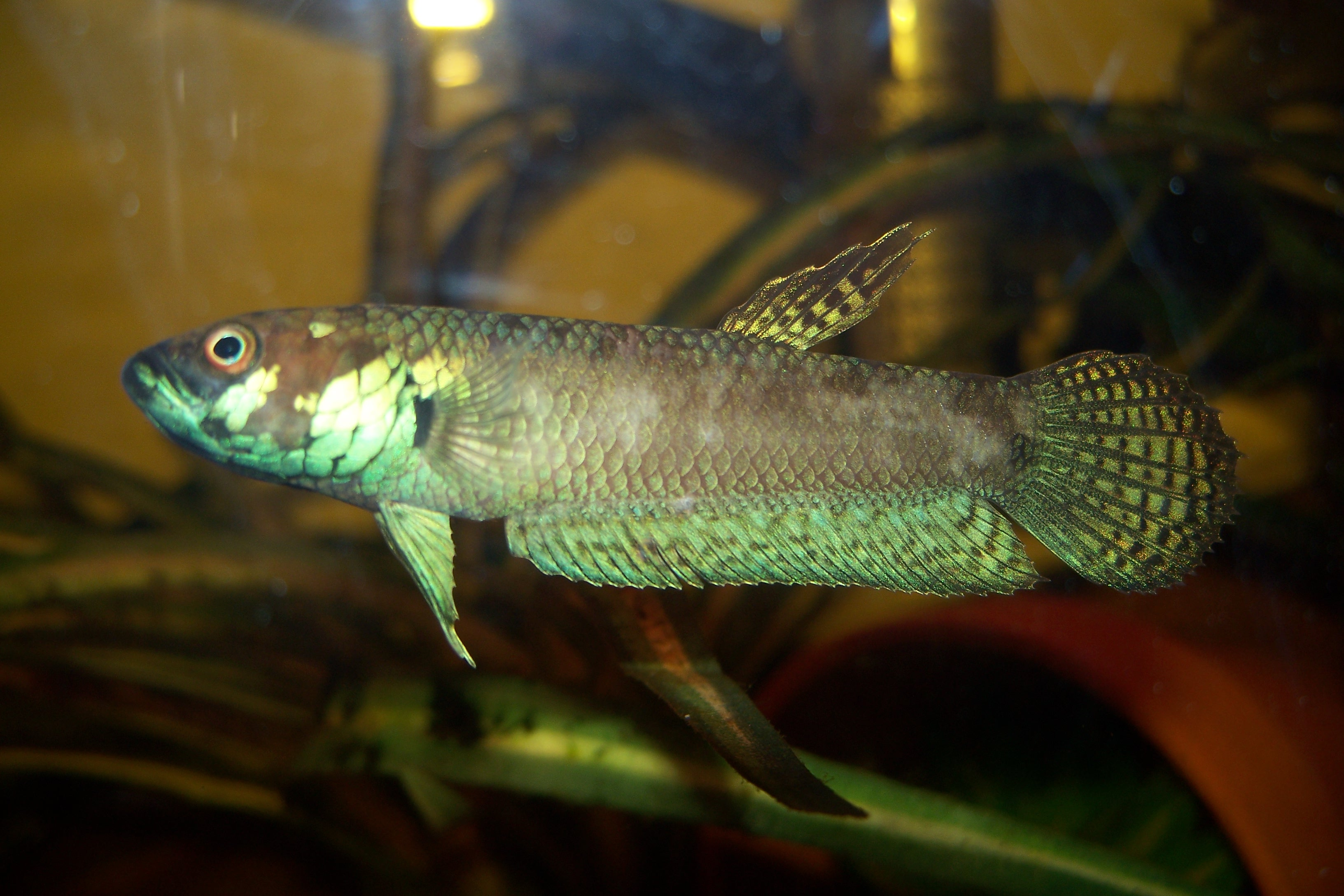 Photo of a male Betta pallifina